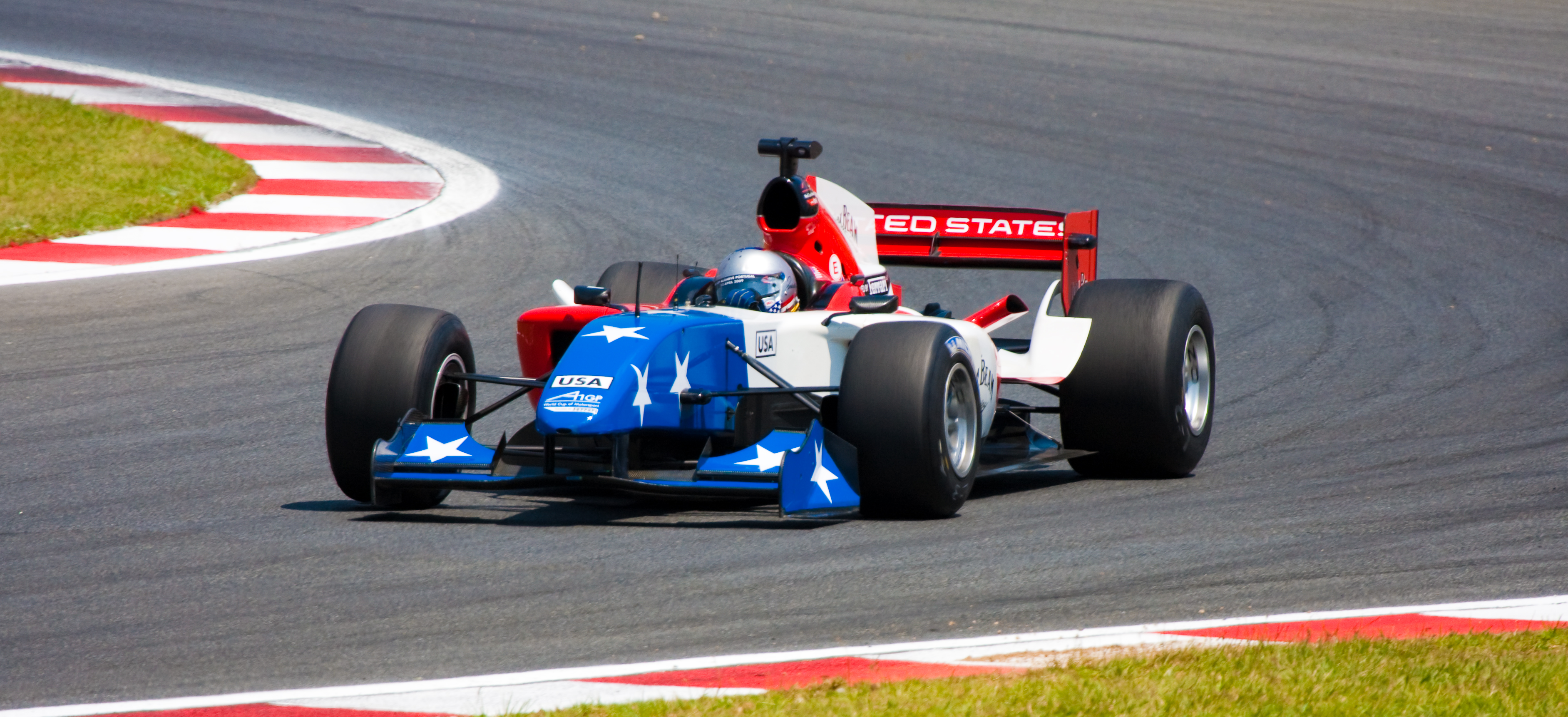 Team United States @ A1 Grand Prix Kyalami South Africa 2009